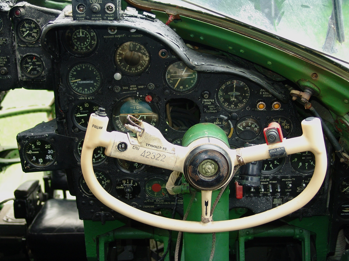 The simple cockpit which brought the Russian civil aviation into the jet age